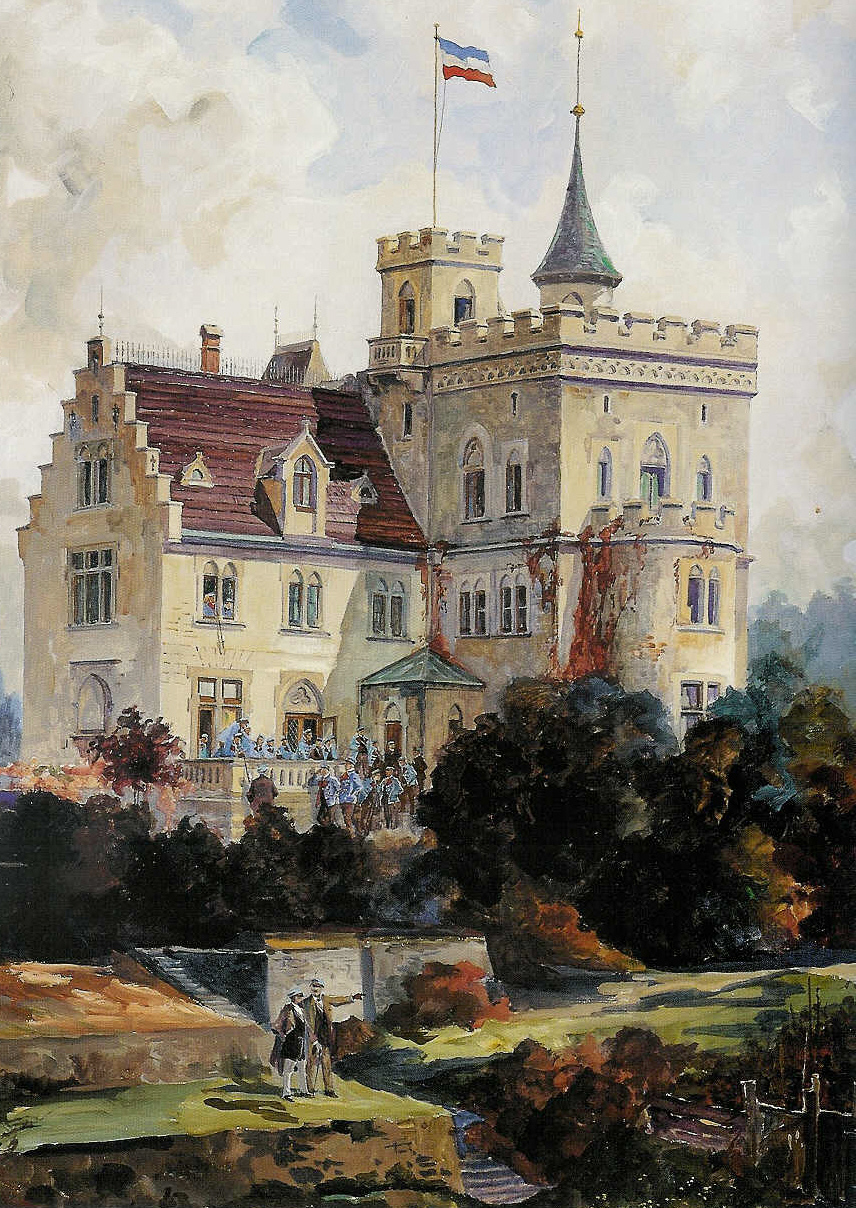 House of student fraternity Corps Rhenania Tübingen in Tübingen/Germany, painting of 1892, Haus des Corps Rhenania Tübingen, Aquarell von 1892